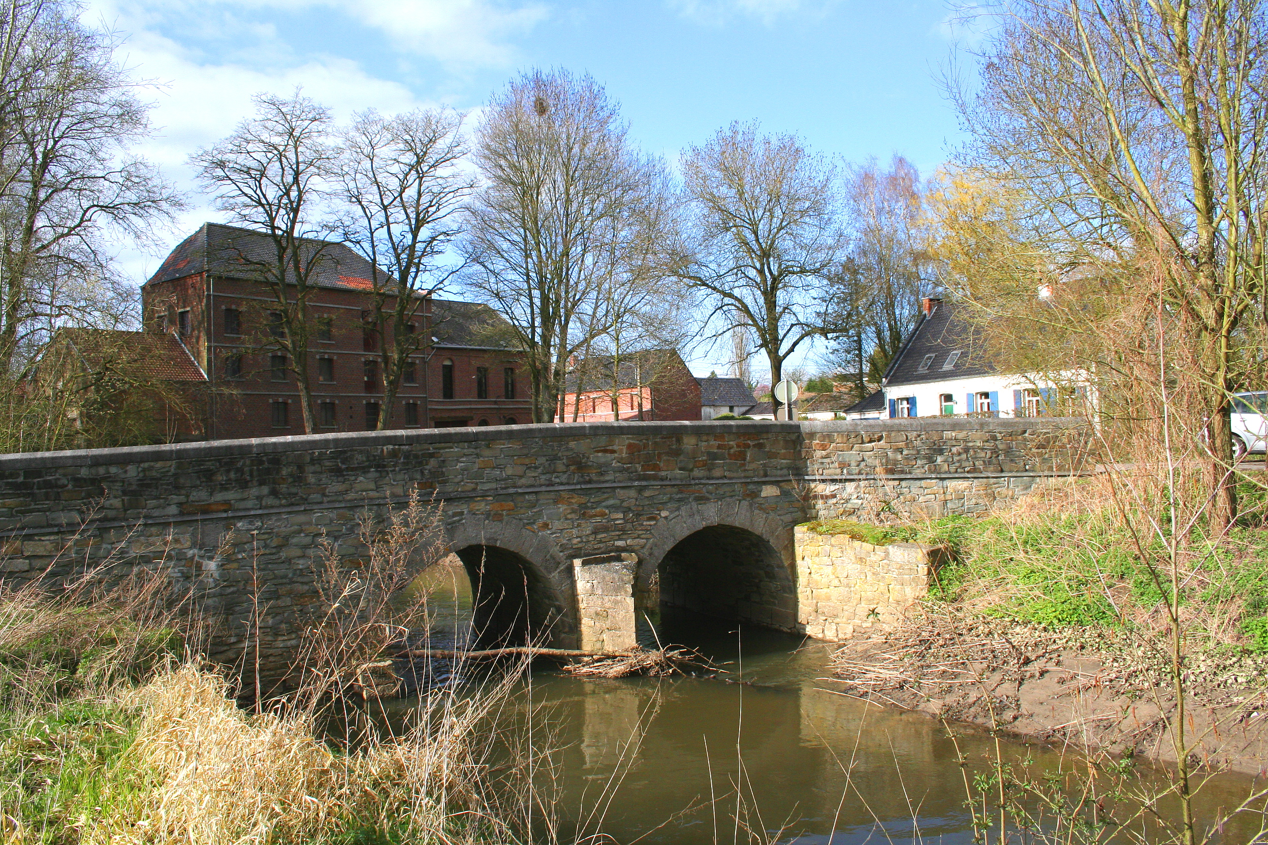 Arbre (Belgium), the bridge on the Dendre Orientale and the former tannery.